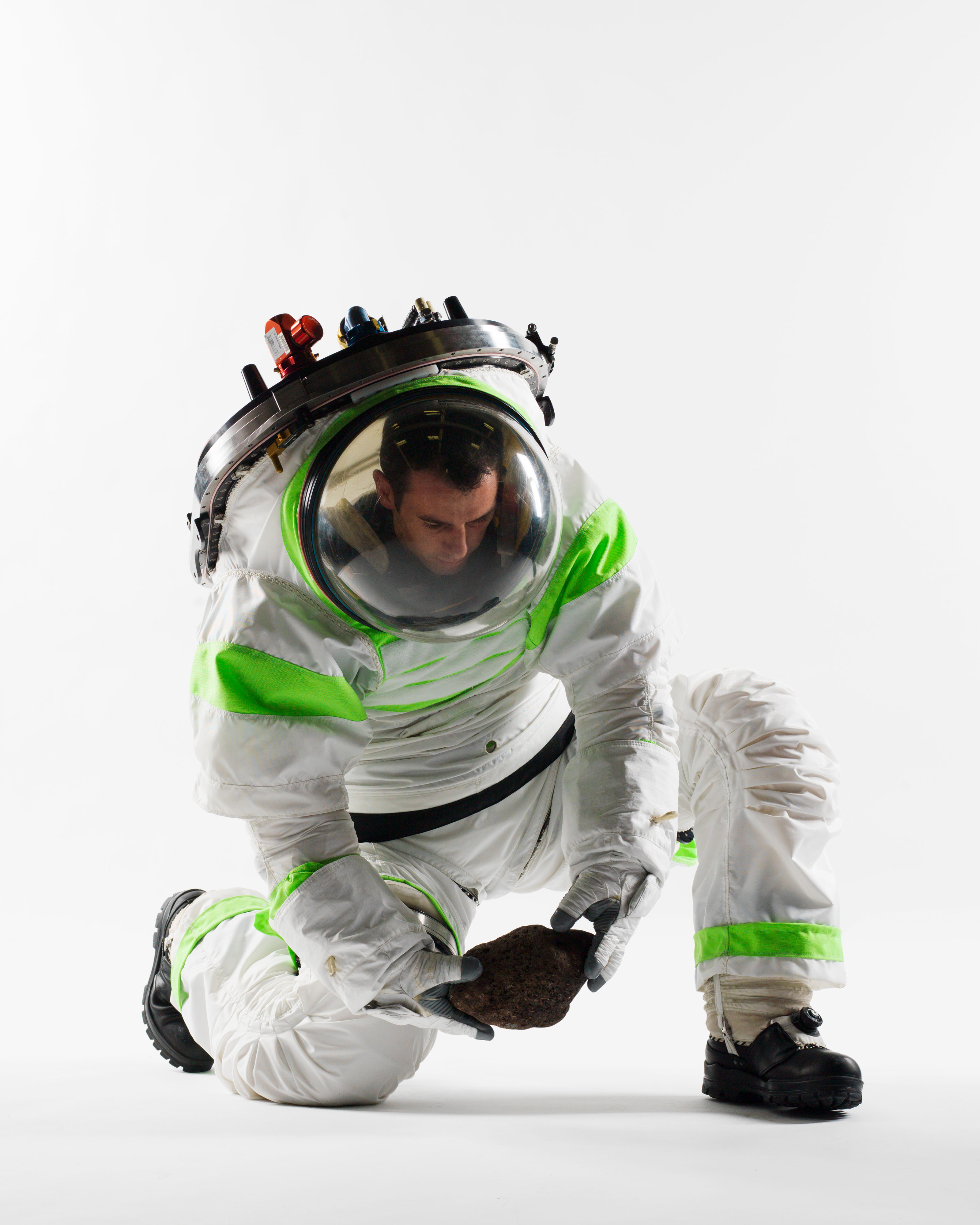 JSC2012-E-237777_ALT (7 Nov. 2012) --- The Z-1 is NASA’s next generation spacesuit, a prototype of which is pictured at the Johnson Space Center. Planned for use by astronauts as they travel to new deep-space locations, the next generation suit will incorporate a number of technology advances to shorten preparation time, improve safety and boost astronaut capabilities during spacewalks and surface activities.